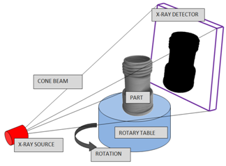 Industrial Ct scanning - cone beam rotation